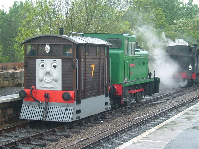 The Avon Valley Railway during a Thomas the Tank Engine day. Toby the Tram at Bitton Station.